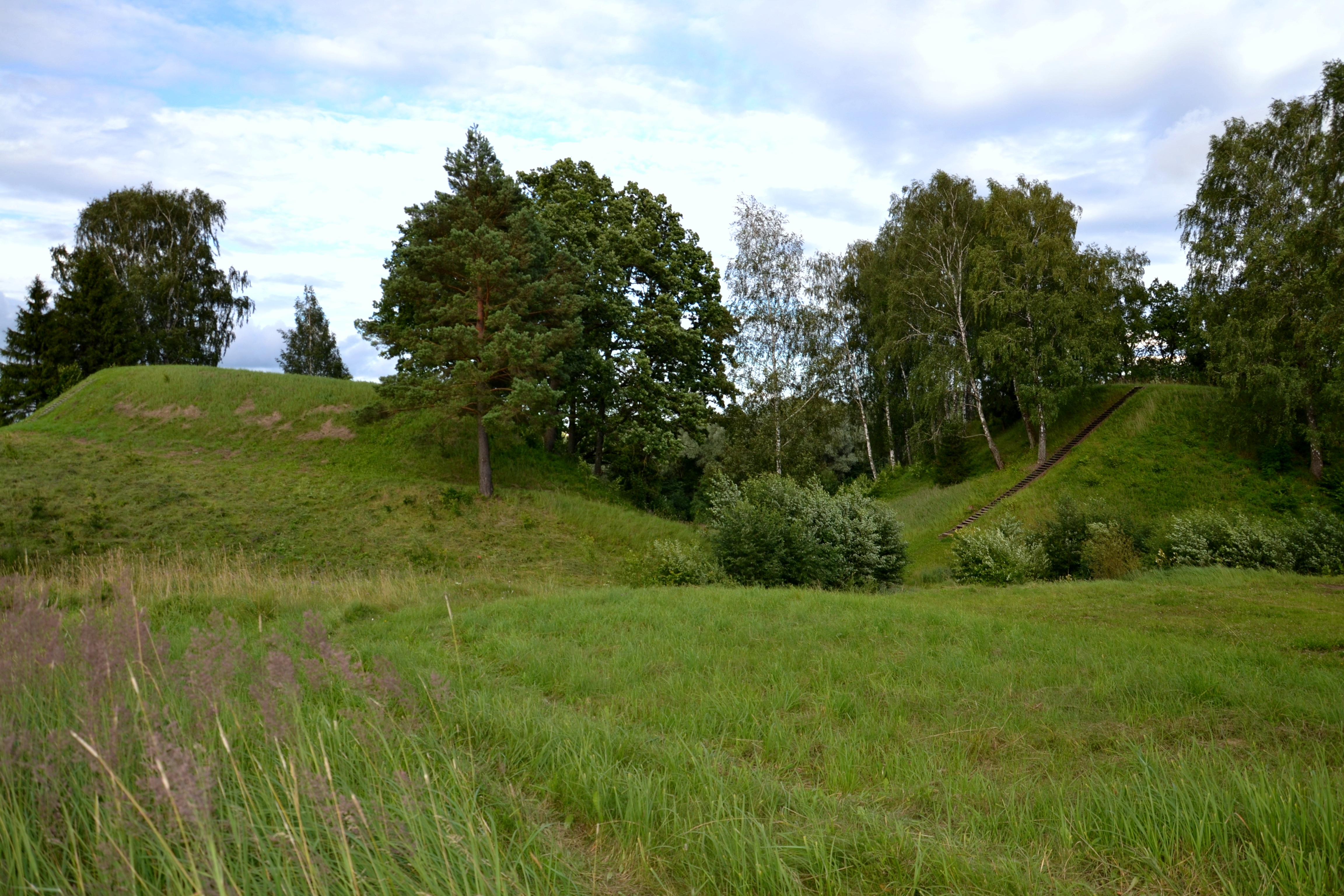 Narkūnai hill fort, Utena district, Lithuania